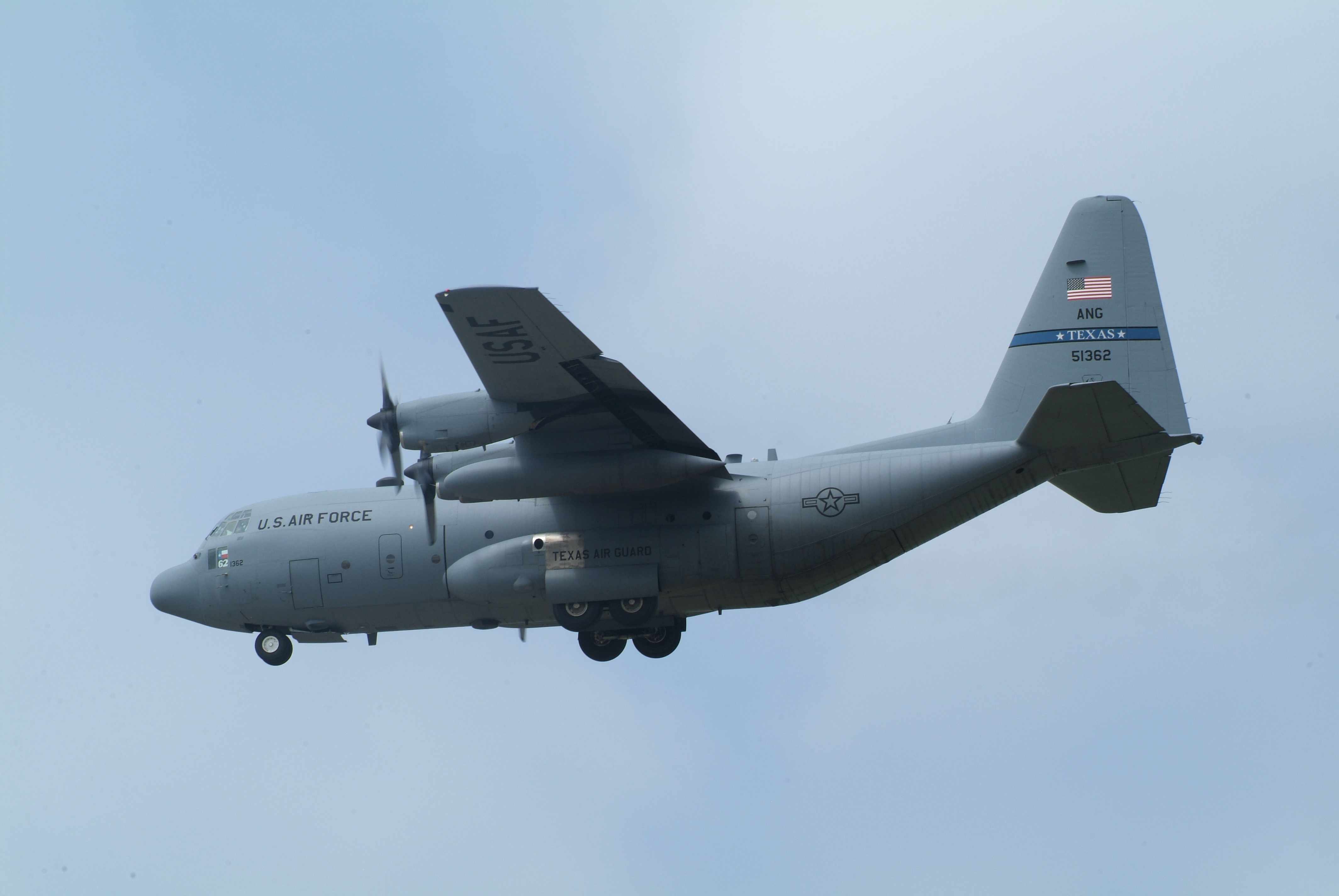 C-130H 85-1362 callsign "Roper 91" Texas Air National Guard landing at NAS North Island